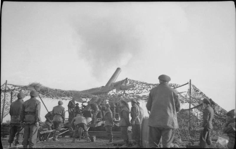 240mm howitzer of 3rd Super Heavy Regiment, Royal Artillery, firing in support of 15th (Scottish) Division's attack on Blerick.